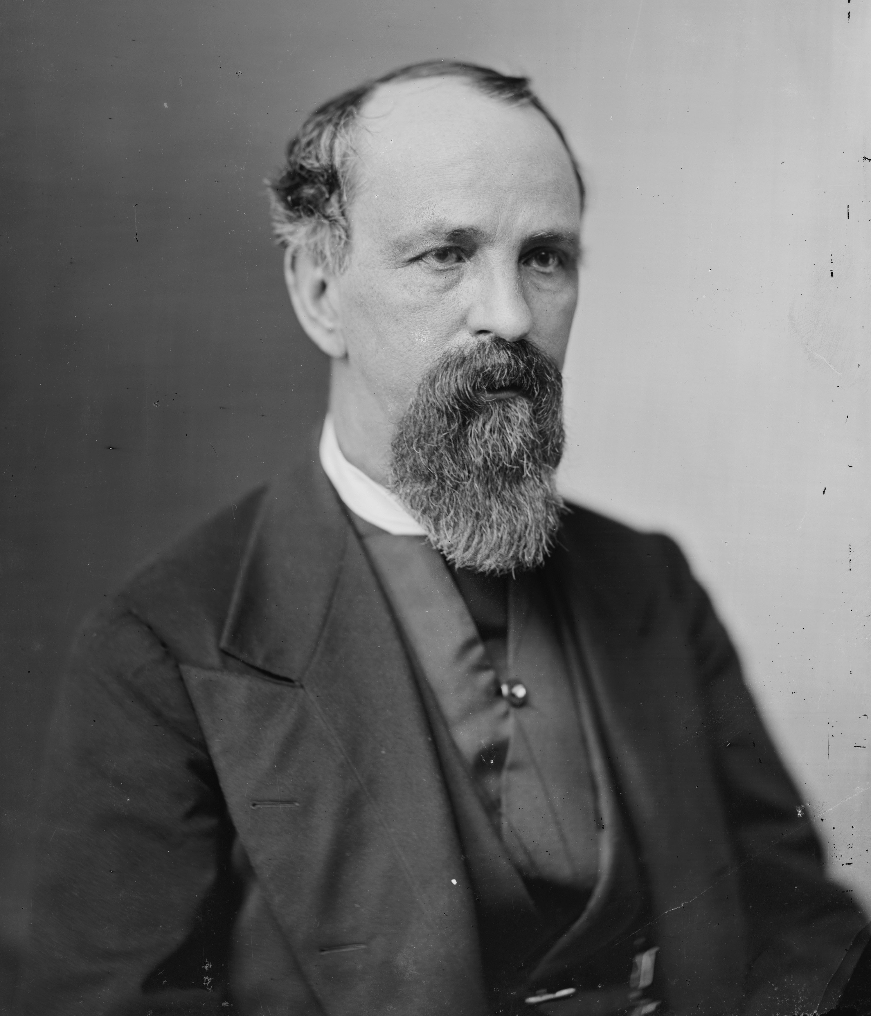 Cox, Hon. Rep. Samuel S. of N.Y.